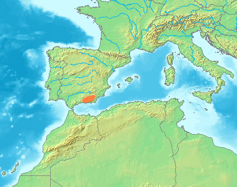 Locator maps for mountain ranges